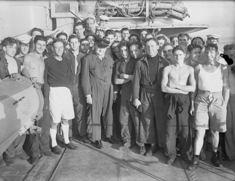 IWM caption : WINSTON CHURCHILL WATCHES THE INVASION OF THE SOUTH OF FRANCE ABOARD HMS KIMBERLEY, 14 - 16 AUGUST 1944. The Prime Minister, Winston Churchill, photographed with members of HMS KIMBERLEY's crew.